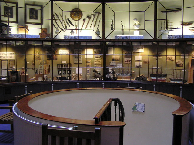 Upstairs inside the Rotunda Museum, Scarborough, North Yorkshire.The foreground shows the top of the spiral staircase emerging onto this upper floor. One of the nicest things about this museum is its smallness and simplicity. This lets you take in and understand the exhibits that interest you, without being overwhelmed by masses of detail.